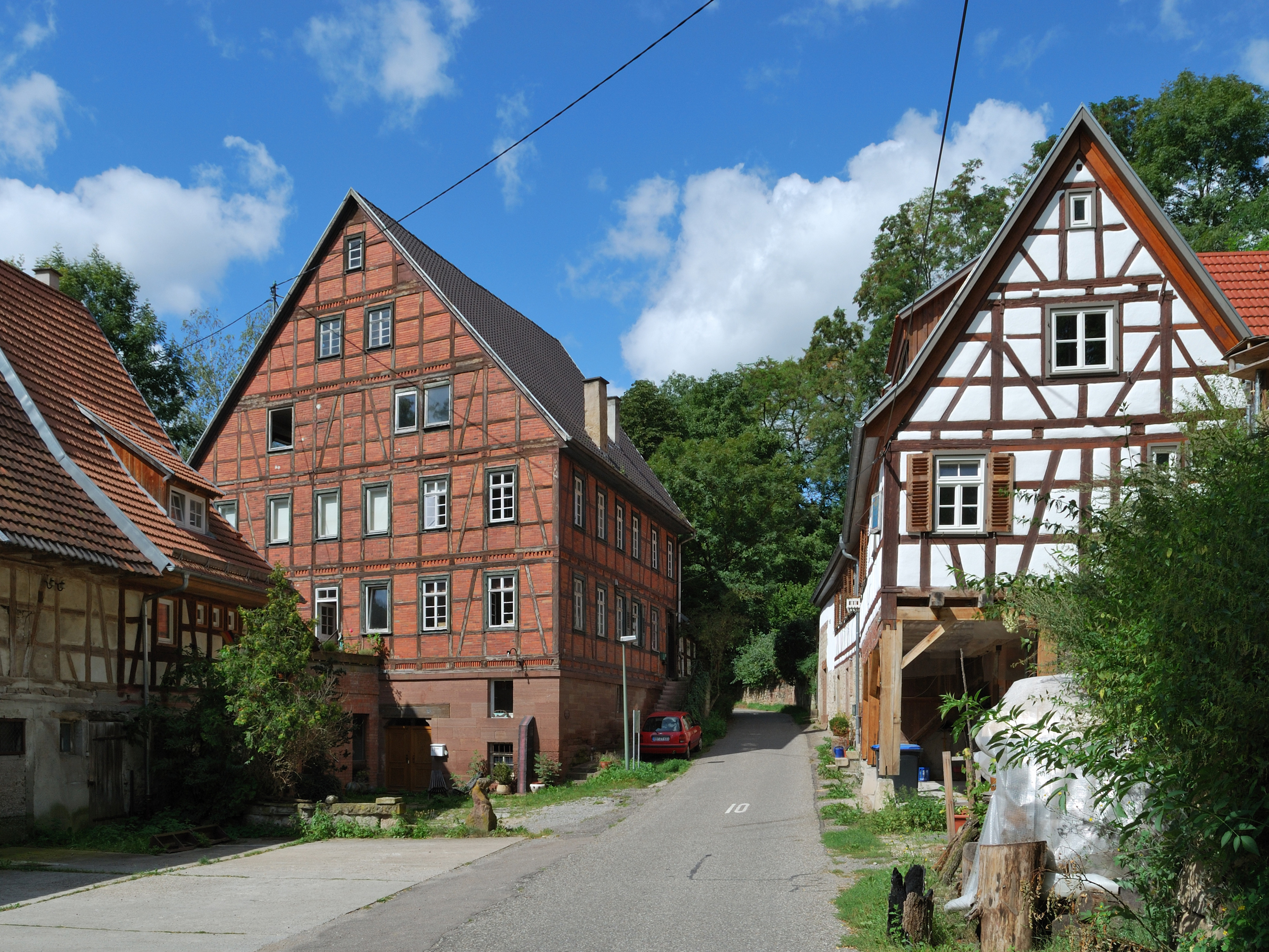 Scheffelmühle is a former water mill on the river Glems in Höfingen, a district of the city Leonberg in Baden-Württemberg in Germany. The name appeared first in the 15th century when the owner was the family Schöffel. The mill worked until the year 1967. In the building there is today a sculptor studio and a pottery studio.